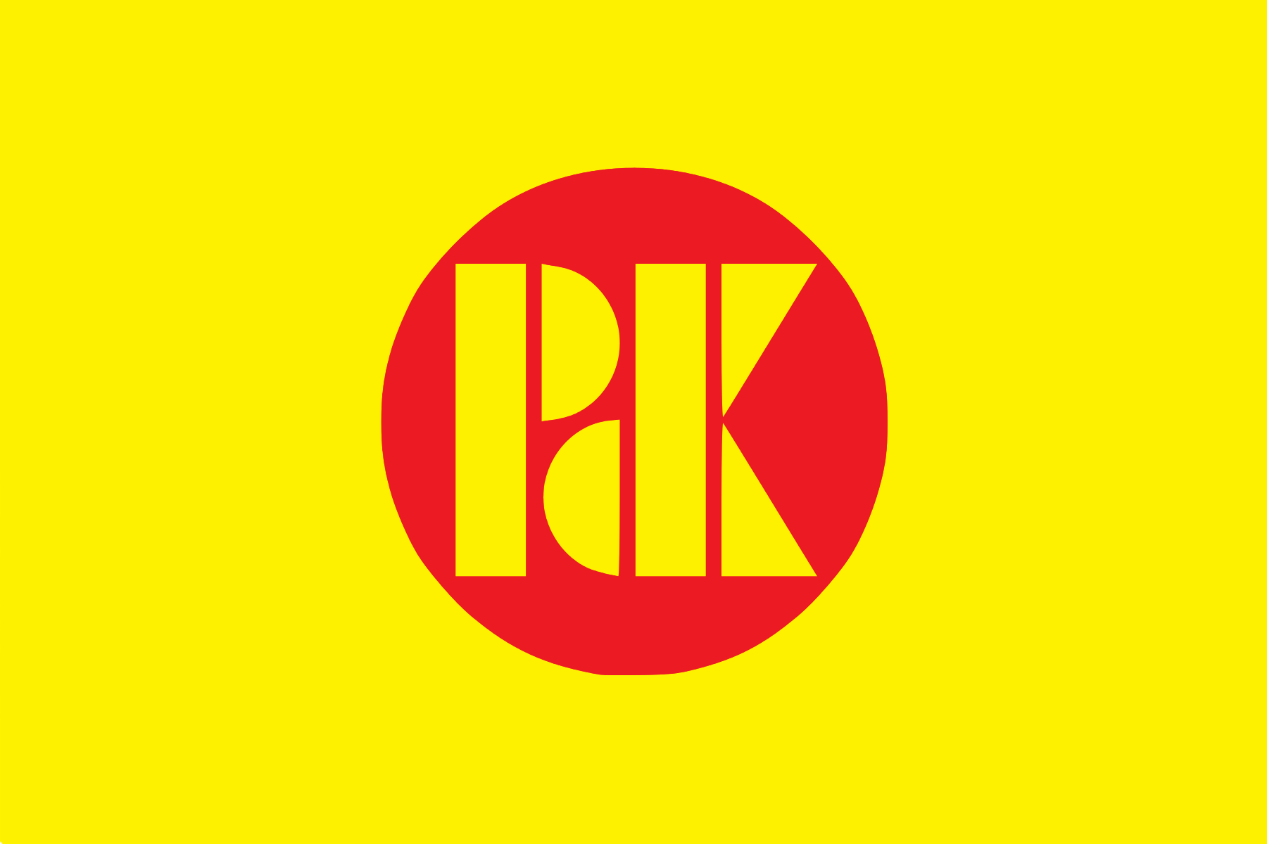 Current flag used by the Kurdistan Democratic Party